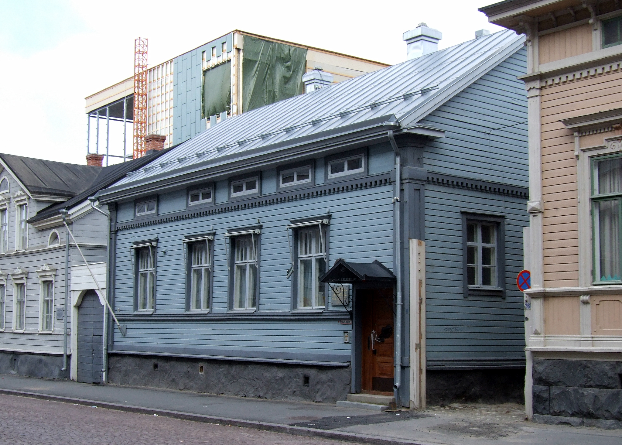 The Friends of the Young Association (Nuorten Ystävät ry) head office on Torikatu street in Oulu, Finland.